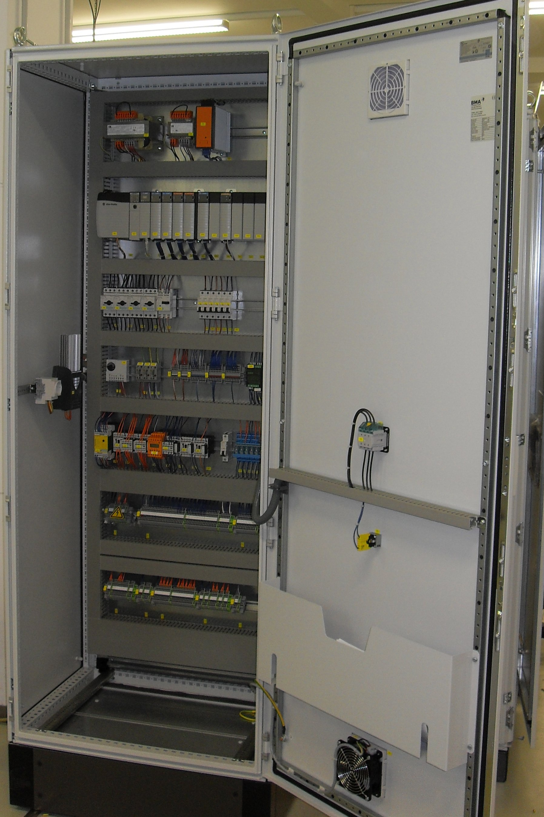 Allen Bradley PLC installed in an electrical enclosure, BMA Automation